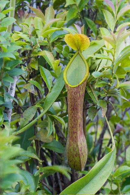 Nepenthes alata photographed on Mt Ambucao, near Sagada and Banaue, Luzon (Alastair Robinson, June 2007) - upper pitcher. In this locality, hundreds of plants grow in a grassy upland meadow genuinely reminiscent of the Swiss Alpine pastures in summer, complete with livestock. Drosera peltata was locally abundant in places.